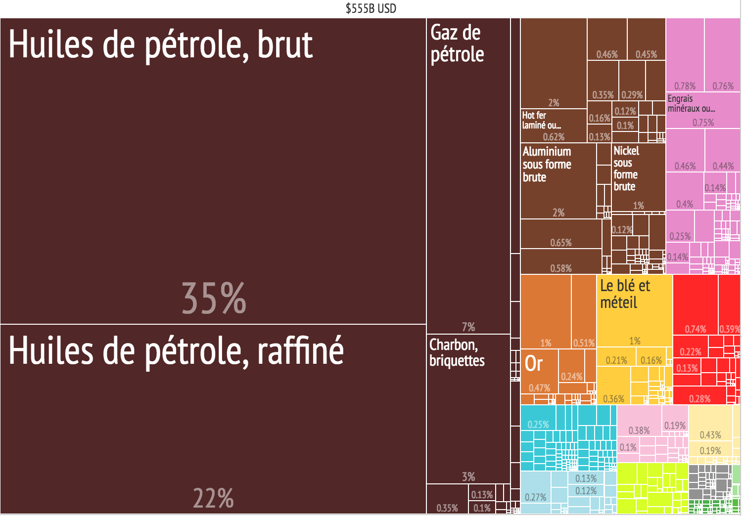 2014 produits russie exportation treemap